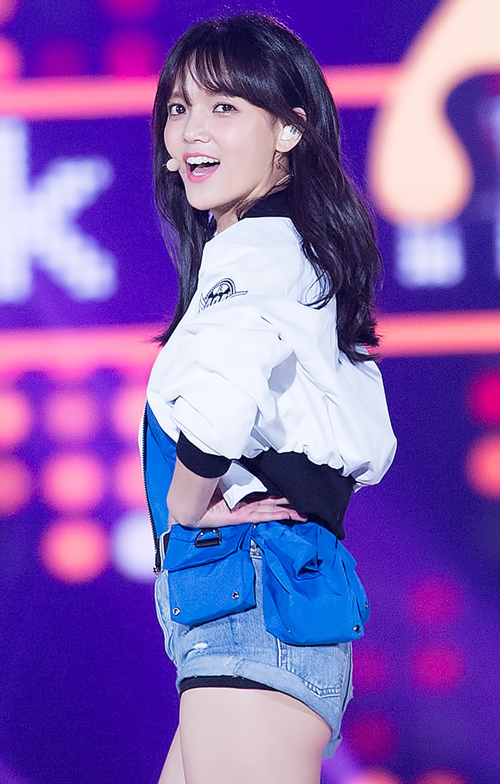 Shin Ji-min at the 2018 Winter Olympics Cheer Concert on September 7, 2016.